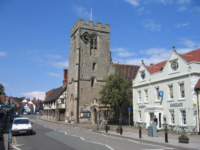 High Street, Henley-in-Arden, Warwickshire, with the 15th-century tower of St John the Baptist parish church